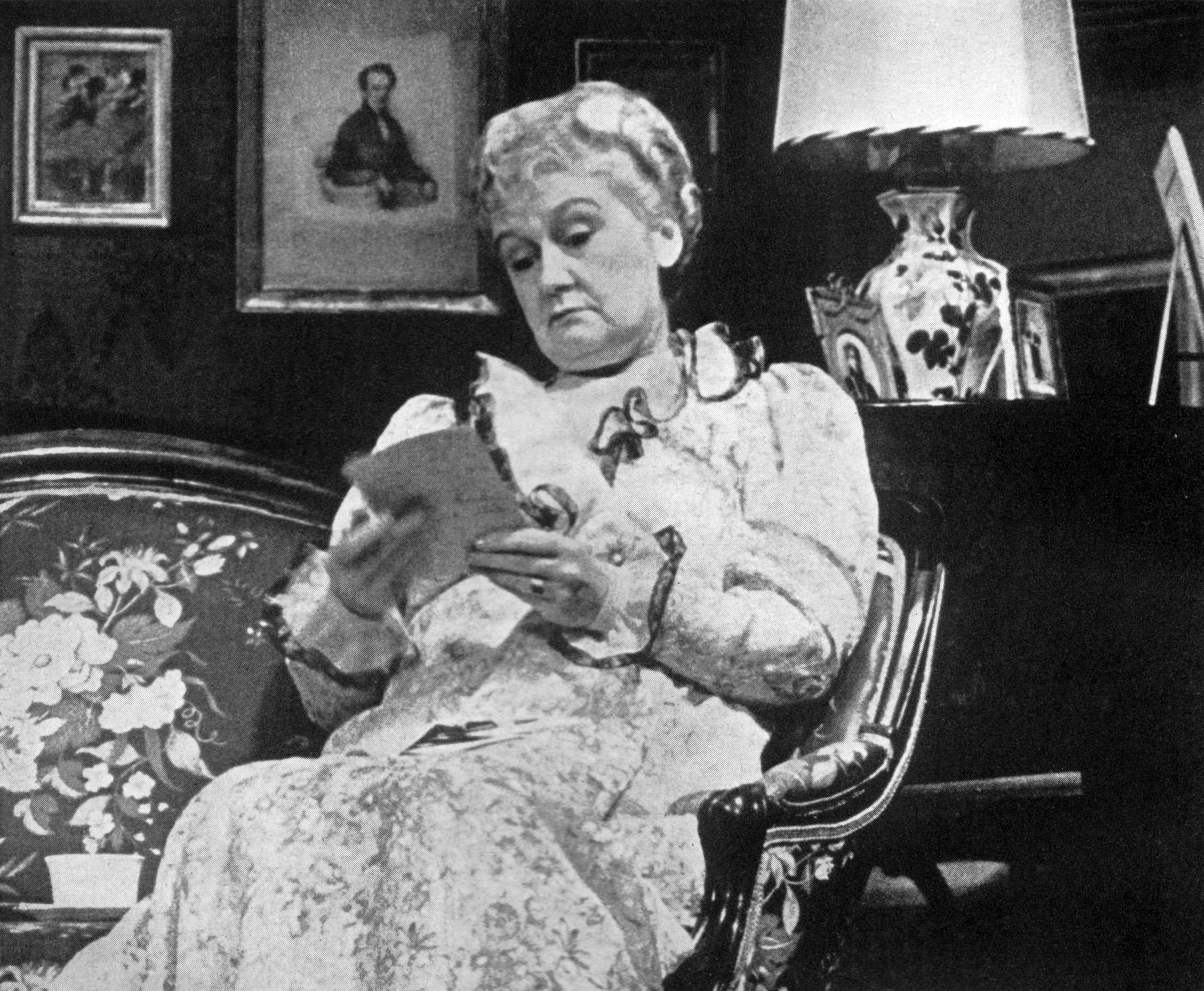 Promotional photograph of Lucile Watson for the original Broadway production of Watch on the Rhine Caption reads as follows: Miss Watson brings to the role of Fanny Farrelly in Lillian Hellman's prize-winning play the full impact of her mature and telling powers. Miss Watson's style is as distinguished as it is forceful, clothed in an authority acquired through many years of success in the exercise of her profession. Her quick, incisive manner, her expert timing, her wit combined with an inherent dignity make her an ideal interpreter of Miss Hellman's American matriarch who is faced with new issues and meets them with courage and understanding. Miss Watson's career has been long and fruitful and has included leading roles in the comedies of many modern playwrights, French, English and American, including many popular hits. Hollywood has had a goodly share of her time since 1934 but his not lessened her ability to handle a challenging role such as the one confided to her in Miss Hellman's play.